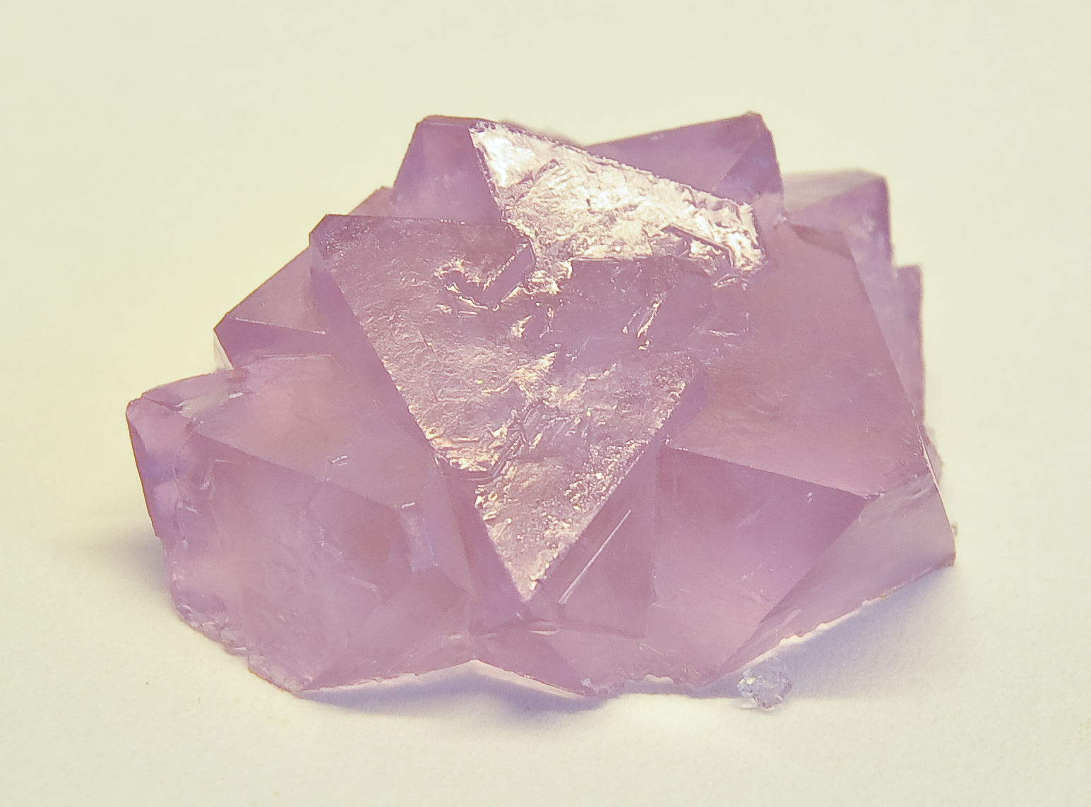 A crystal of ammonium ferric sulfate (ammonium iron(III) sulfate dodecahydrate, NH4Fe(SO4)2·12 H2O).